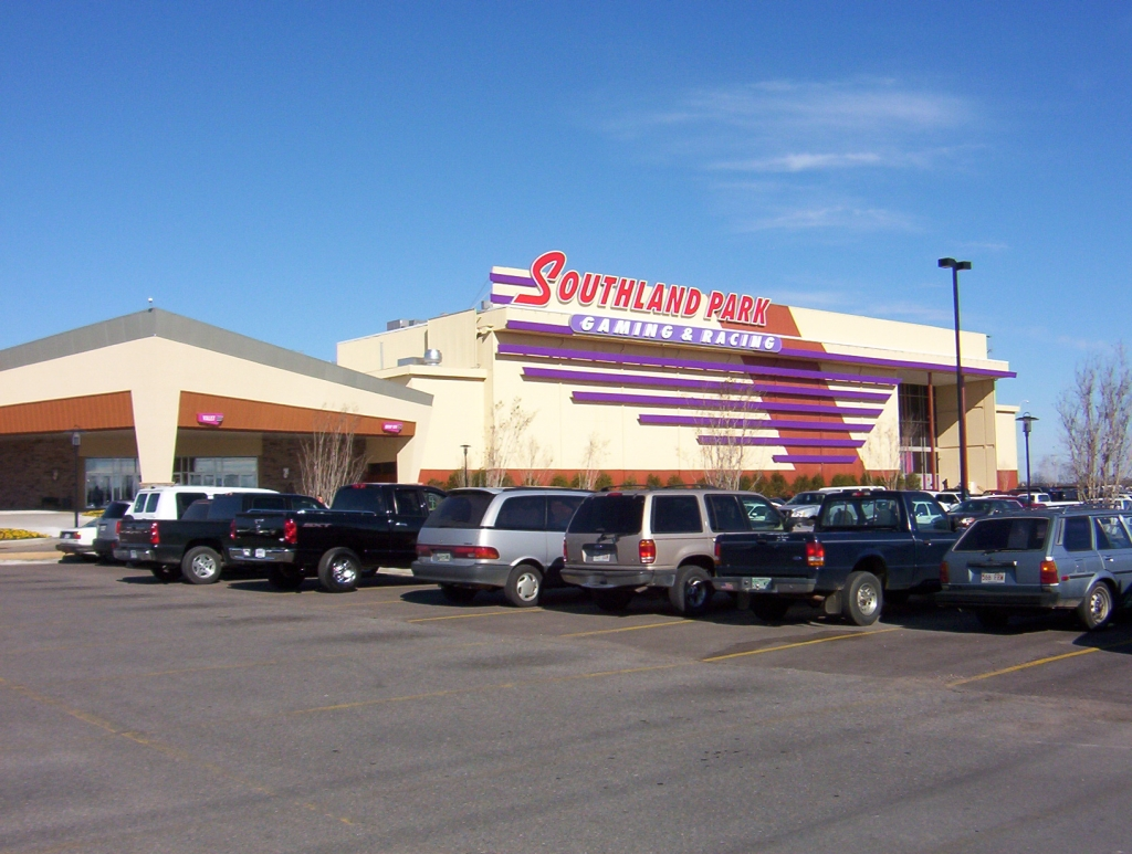 Southland Greyhound Park in West Memphis, Arkansas. (Jan. 2008)